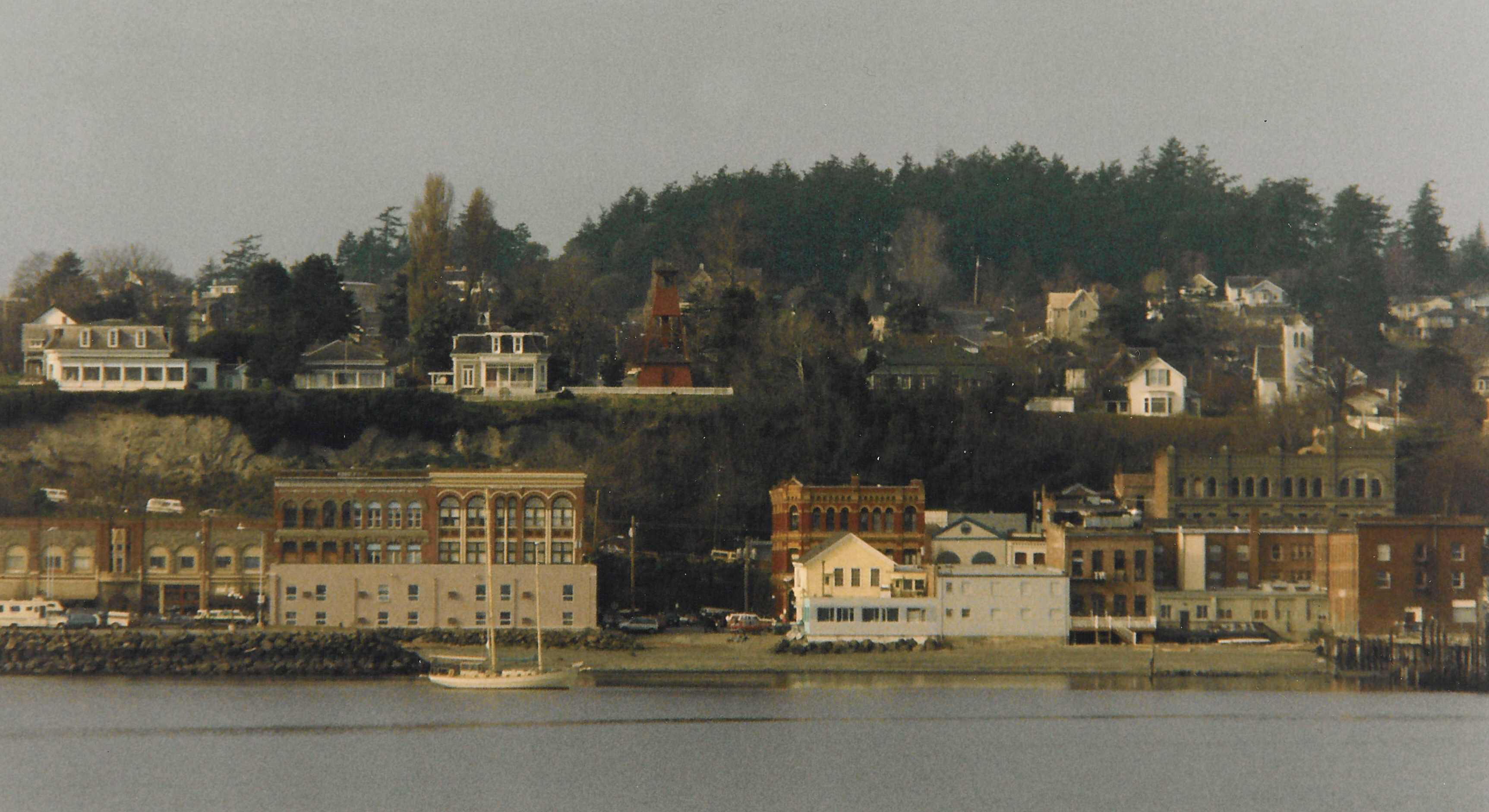 View from ferry to downtown Port Townsend, Washington.